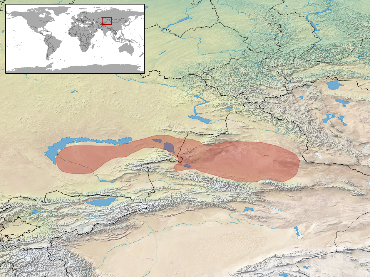 geographic distribution of Phrynocephalus melanurus (Native: China (Xinjiang); Kazakhstan)